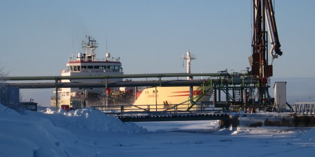 Italian chemical tanker M/T Smeraldo in Kemi, Finland. IMO Number: 9148570 Country: Italy MMSI Number: 247697000 Callsign: IBPE Length: 117 m Beam: 16 m